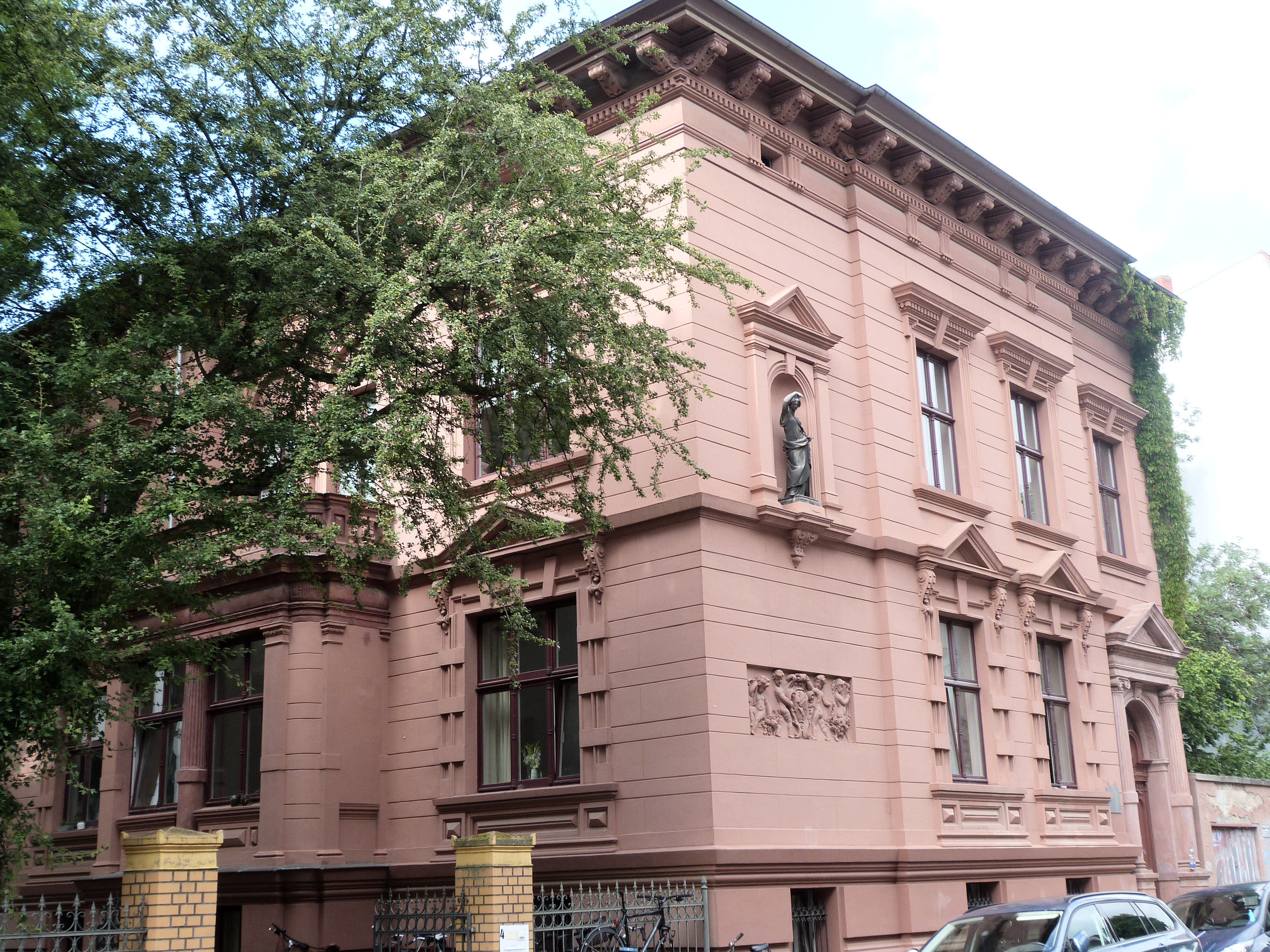 Villa Ulestrasse No. 4 in Halle (Saale)